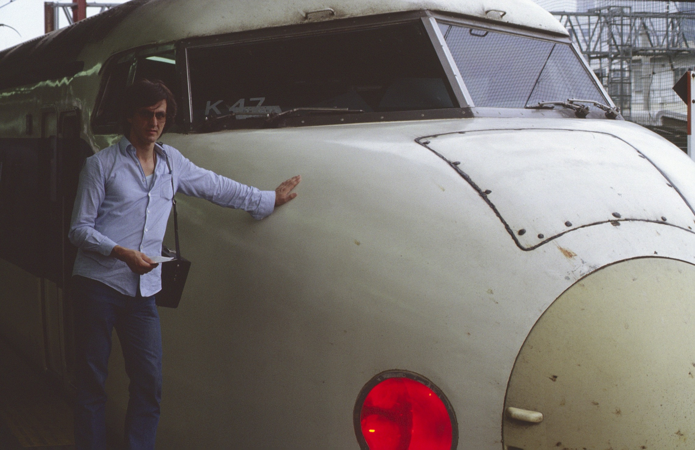 A first generation, i.e. 0-series Shinkansen high speed train standing in Tokyo railway station with a foreign visitor leaning to its rear end